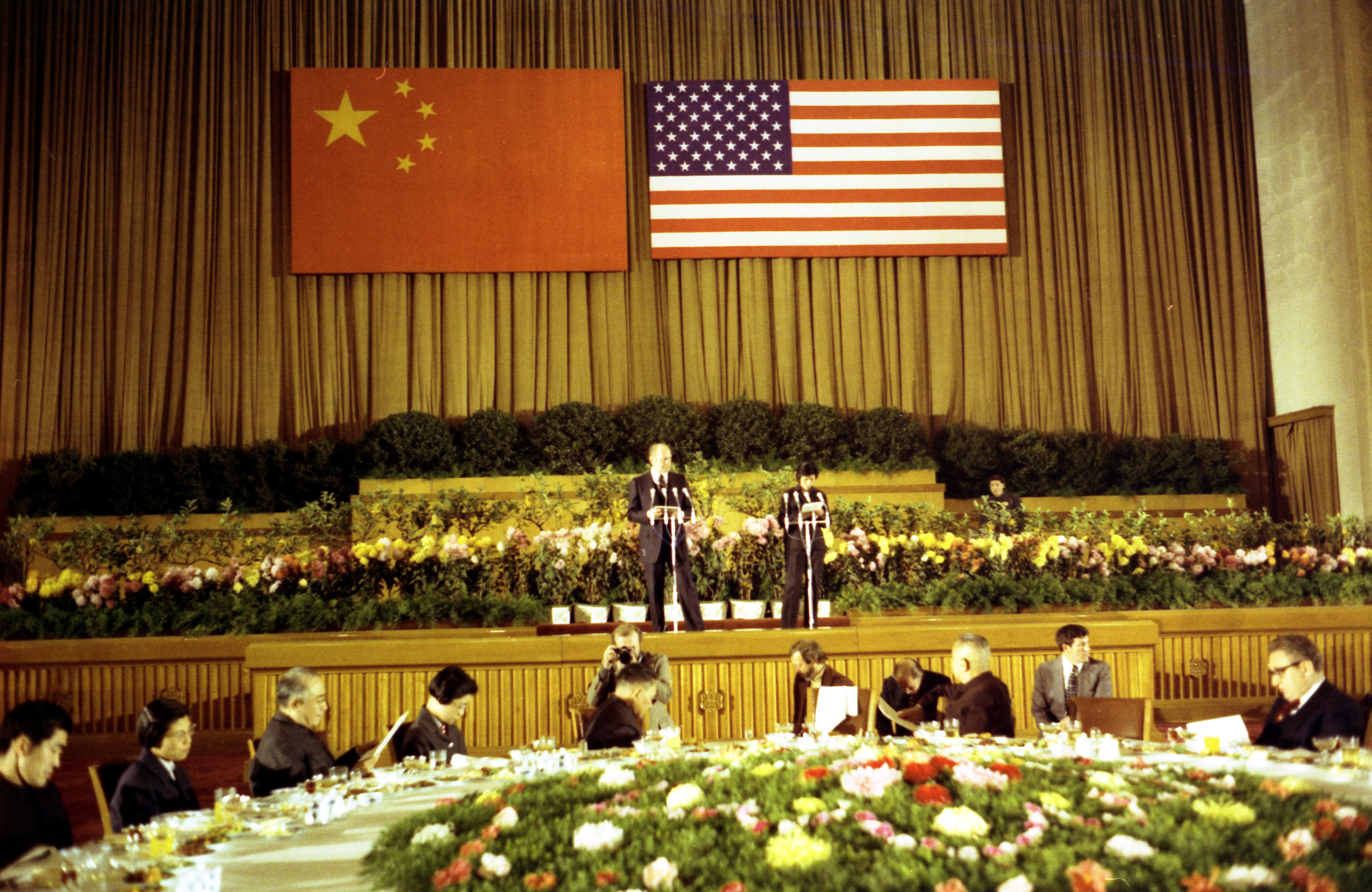 This photograph depicts President Ford making remarks at a Reciprocal Dinner in honor of the People's Republic of China (PRC) Official Party that he and First Lady Betty Ford hosted in the Peking Room of the Great Hall of the People.